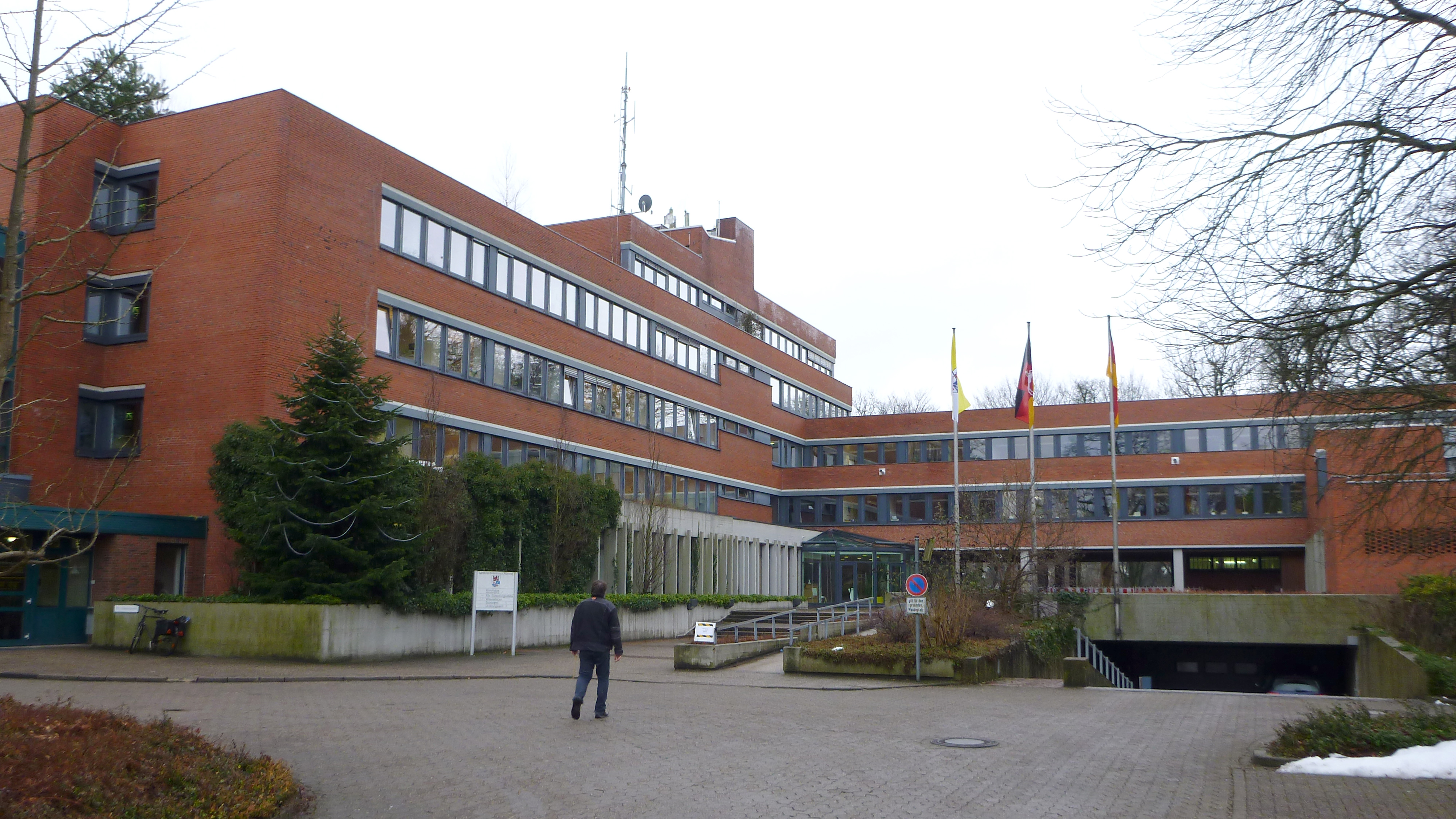 Public building in Rotenburg